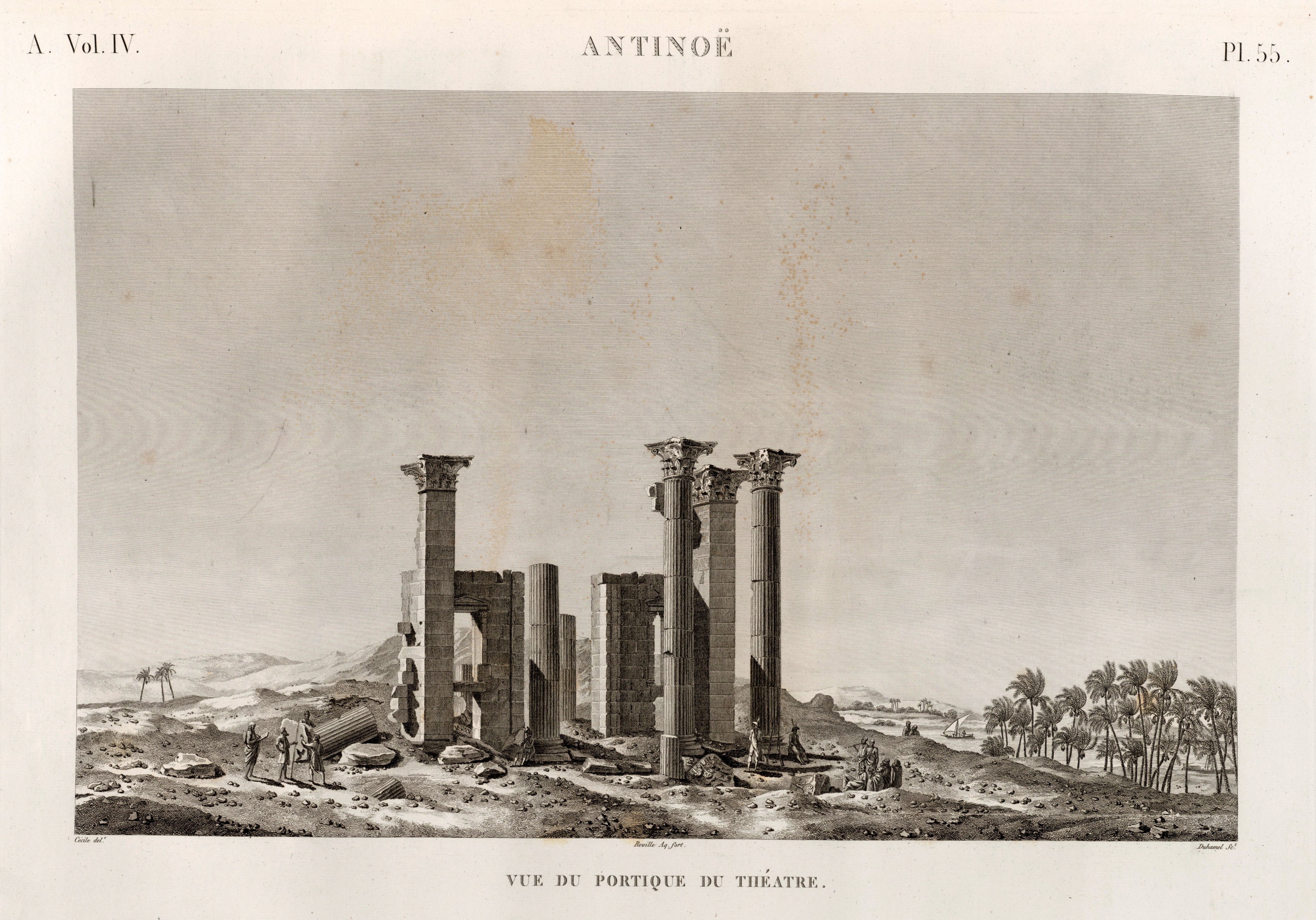 Antinoë [Antinoöpolis]. Vue du portique du Théatre.